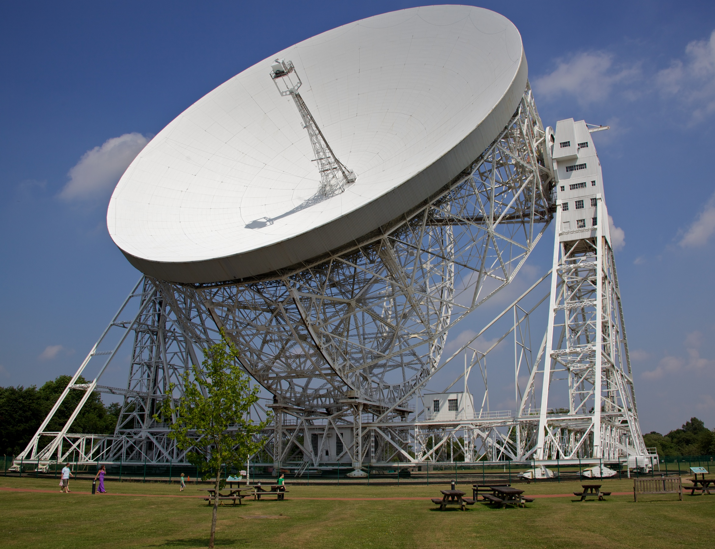 Hmm, the colour balance seems wrong on this when viewed under Chrome & Linux. I might have messed up the colour profile...